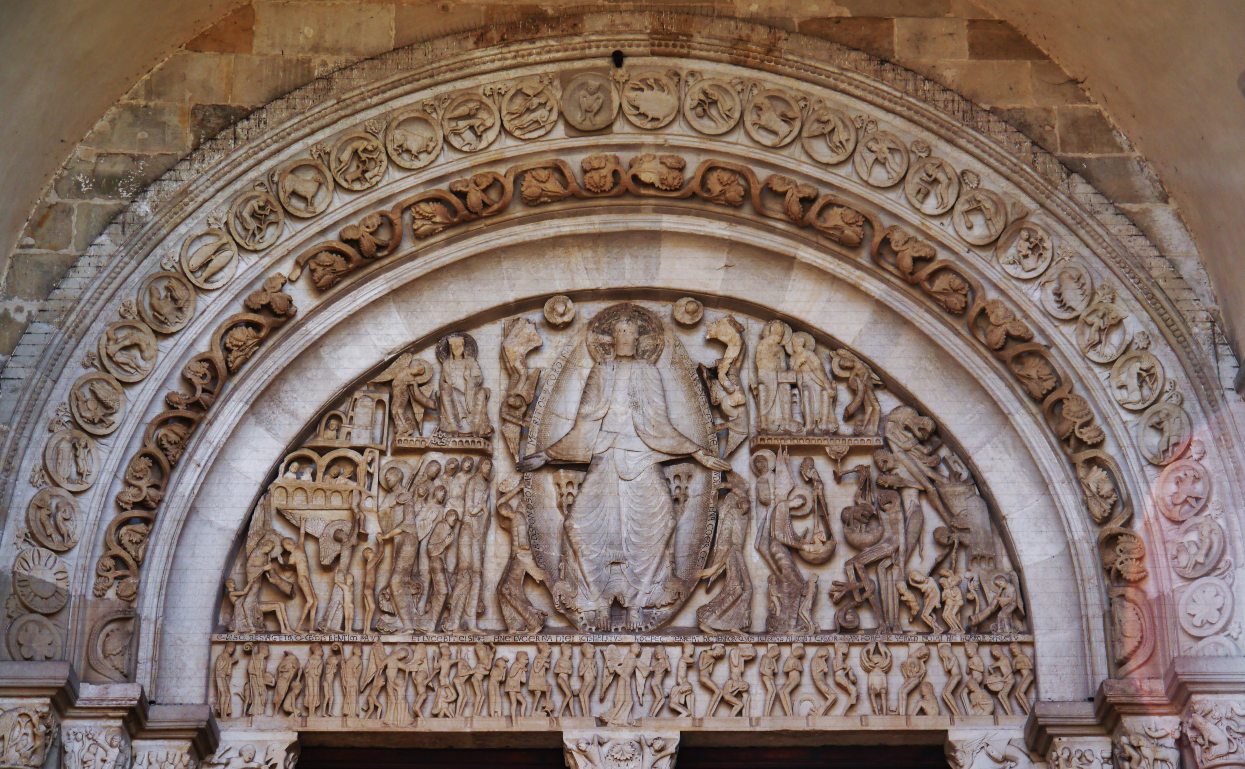 Tympanum of bthe Portal of the Cathedral of St. Lazarus, Autun, Département of Saône-et-Loire, Region of Burgundy (now Burgundy-Frache-Comté), France